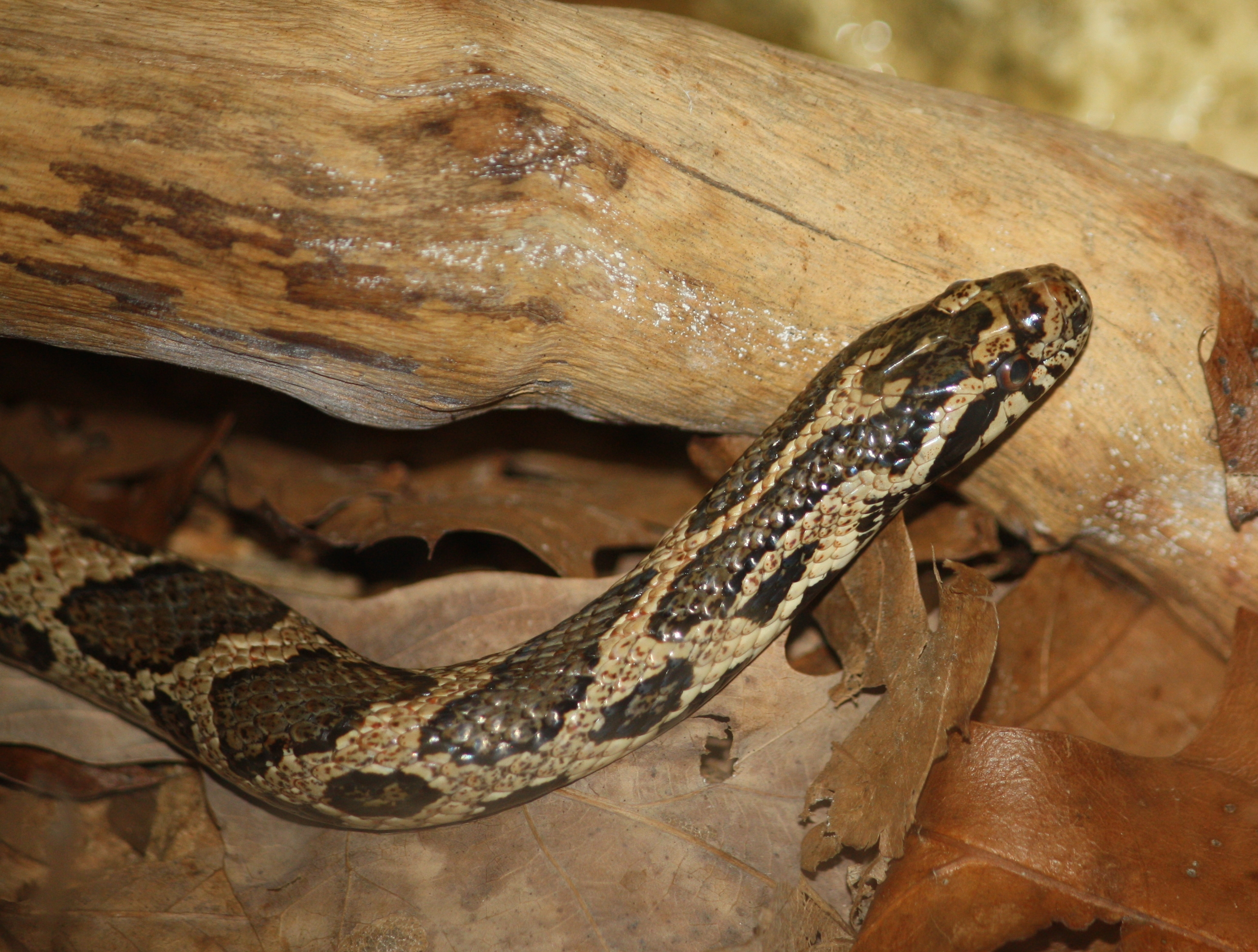 Eastern Milksnake Lampropeltis triangulum triangulum at Binder Park Zoo in Battle Creek, Michigan